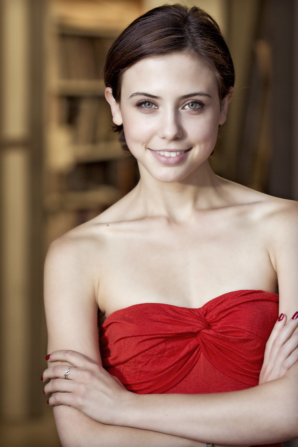 Leila Ryzvanauna ISMAILАVA (Leila Ryzvanauna Ismailli, born on July 28, 1989 in the city of Minsk, Belarus) is a Belarusian journalist, host of musical television programs, model. Photo: Rodelio Astudilo.